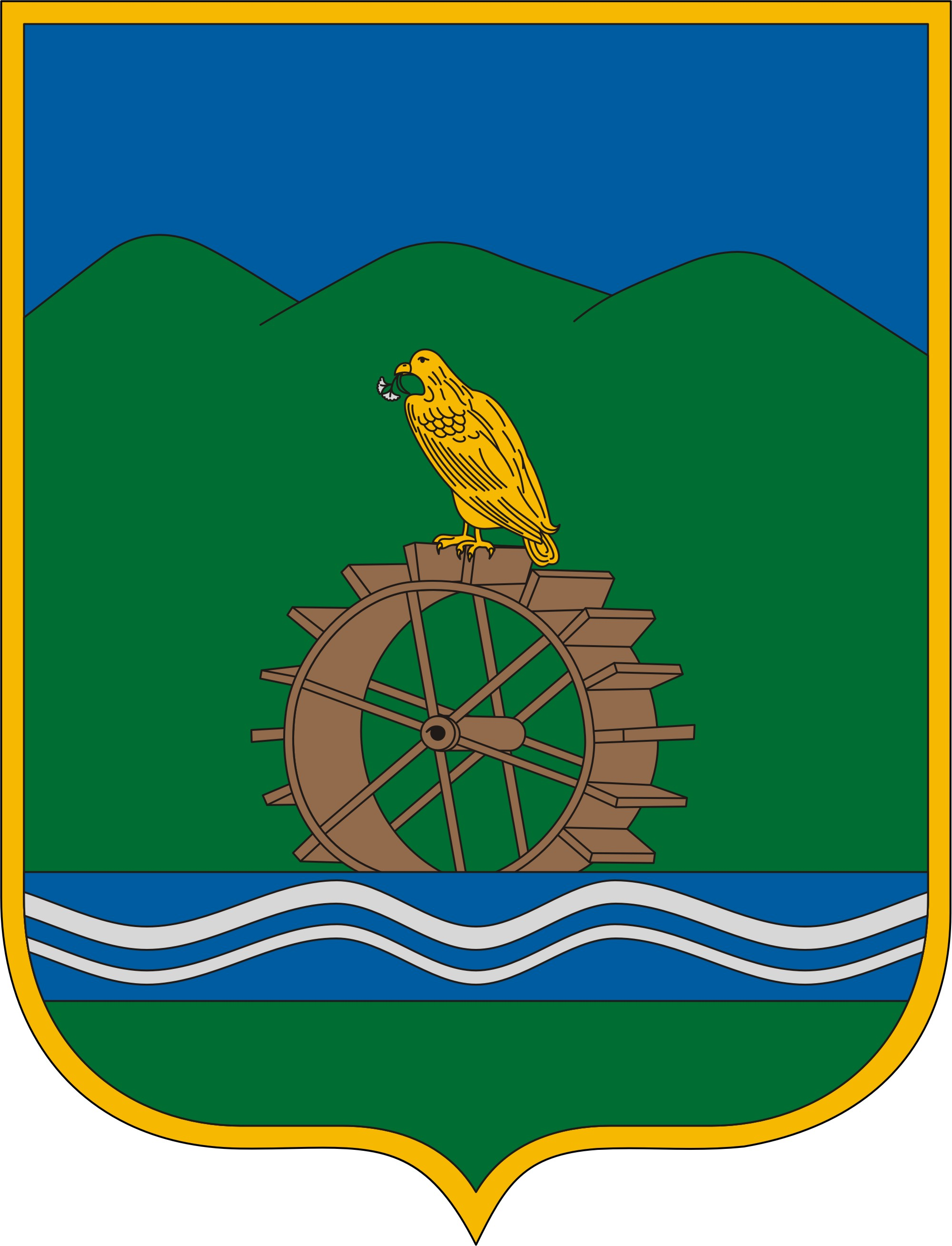 Coat of arms of Mónosbél, Hungary